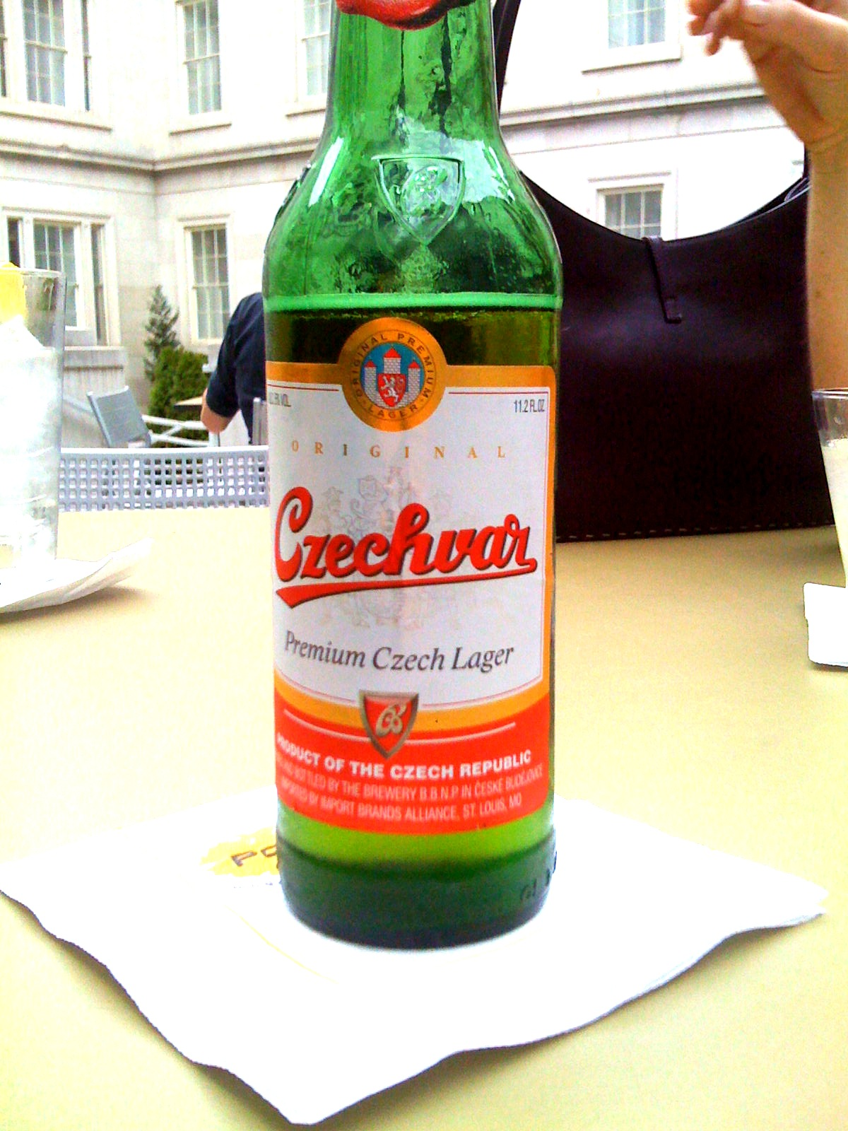 Bottle of czech beer Budweiser Budvar in the US sold as Czechvar.